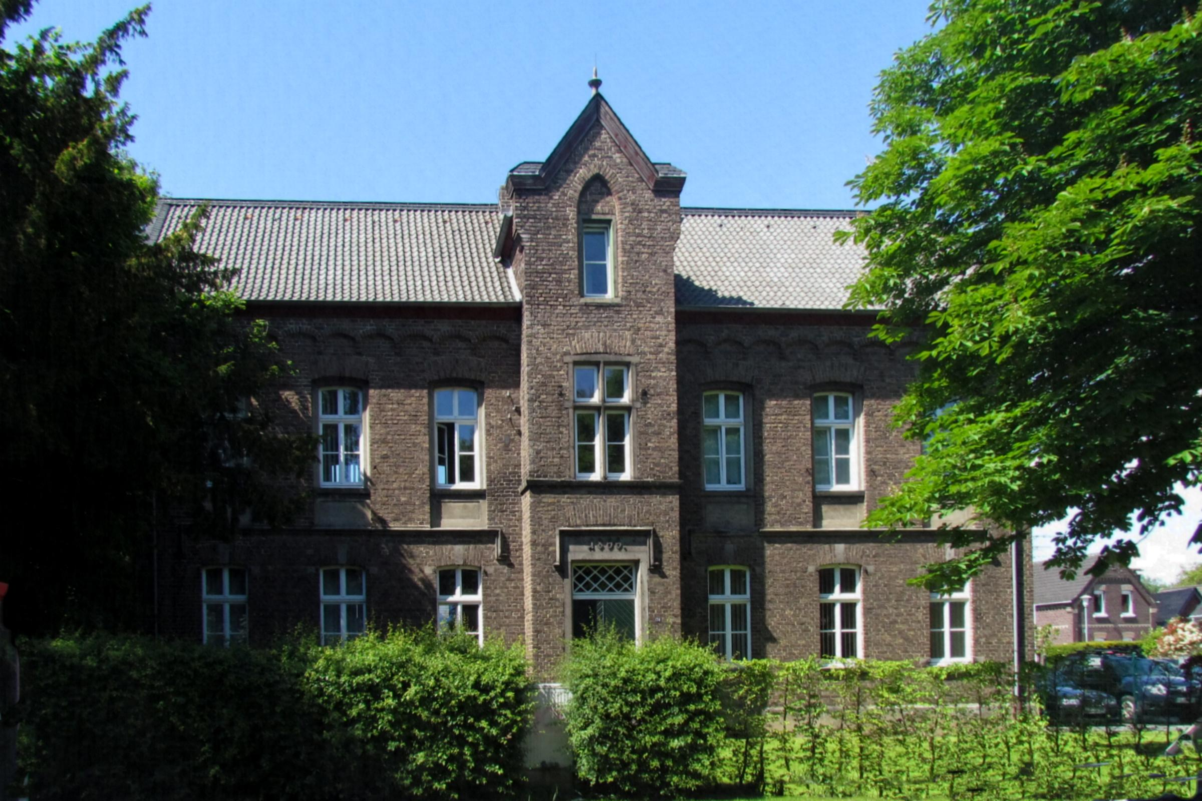 This is a photograph of an architectural monument.It is on the list of cultural monuments of Korschenbroich